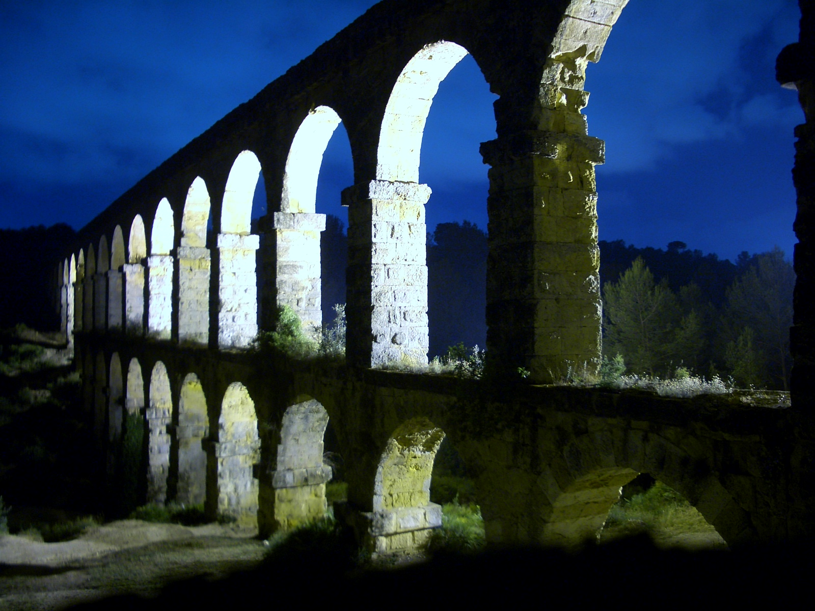 Tarragona Aqueduct (el Pont del Diable)